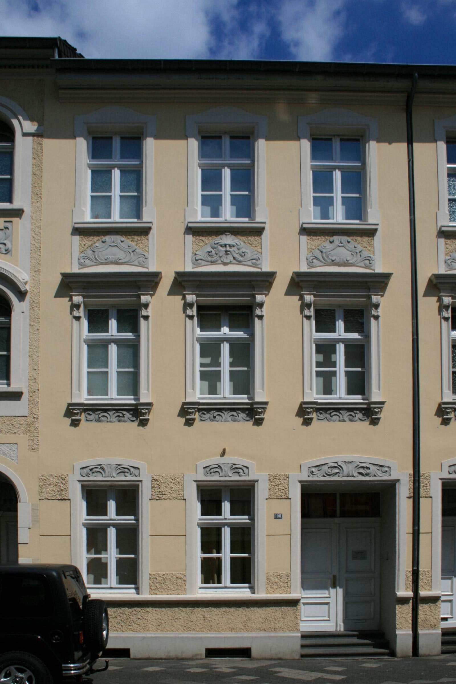 Cultural heritage monument No. W 004 in Mönchengladbach